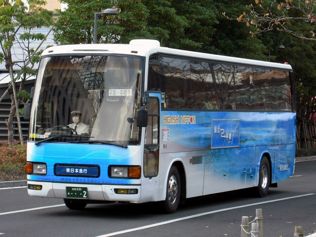 Higashinippon Express Highwaybus "Sendai-Hiraizumi(Iwate)" Mitsubishi Fuso Aero Queen I(U-MS729S)